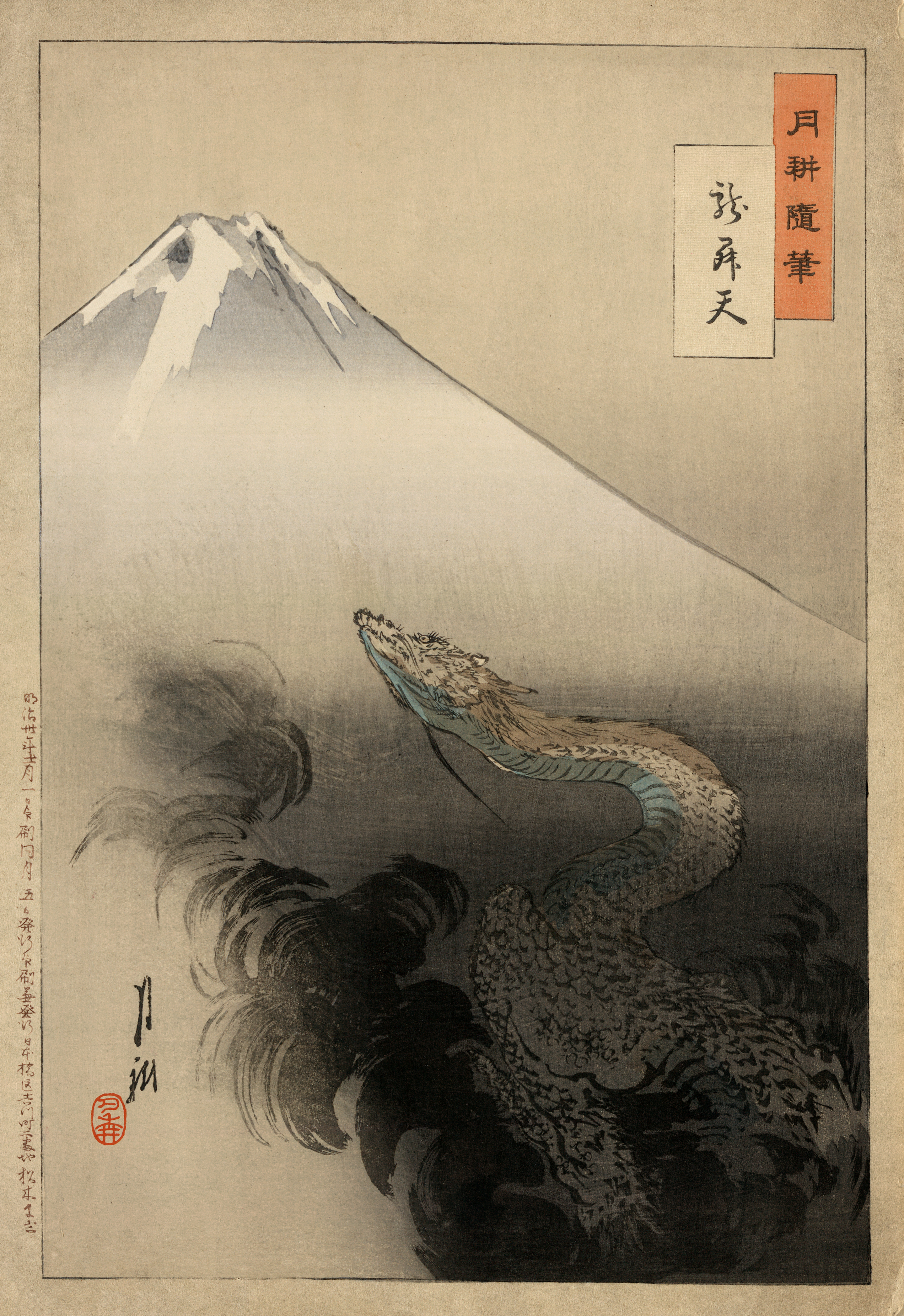 "Ryu sho ten" or "Ryu shoten" (Dragon rising to the heavens), also known as "Gekko Zuihitsu" (Gekko's Sketch), a Ukiyo-e print from Ogata Gekko's Views of Mt. Fuji. A dragon rises out of smoke near Mt. Fuji, ascending towards the sky. The text on the left hand side is in an archaic form of Japanese writing that includes characters not in common use any more. translation follows: 明治卅年十一月一日印刷同月五日発行印刷兼発行日本橋区吉川町二番地松木平吉 Printed on Nov 1st, 30 of Meiji [1897], published on the same month 5th. Printed and published by Heikichi Matsuki, who lives 2 Yoshikawa, Nihonbashi ward. Thanks to 利用者:kzhr, 利用者:青子守歌, Ceridwen, 利用者:Tonbi_ko for translation help.